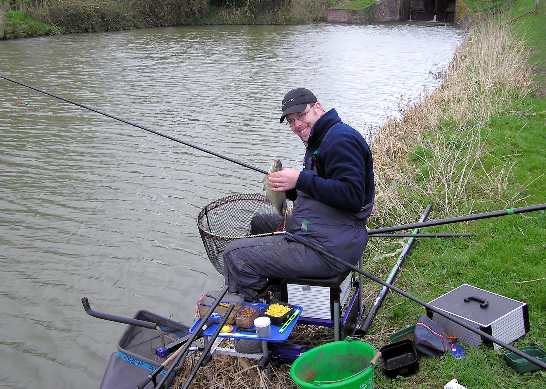 An angler displays his catch on a wide part of the Kennet and Avon Canal at the top of the Caen Hill Locks, in Devizes, Wiltshire, England.